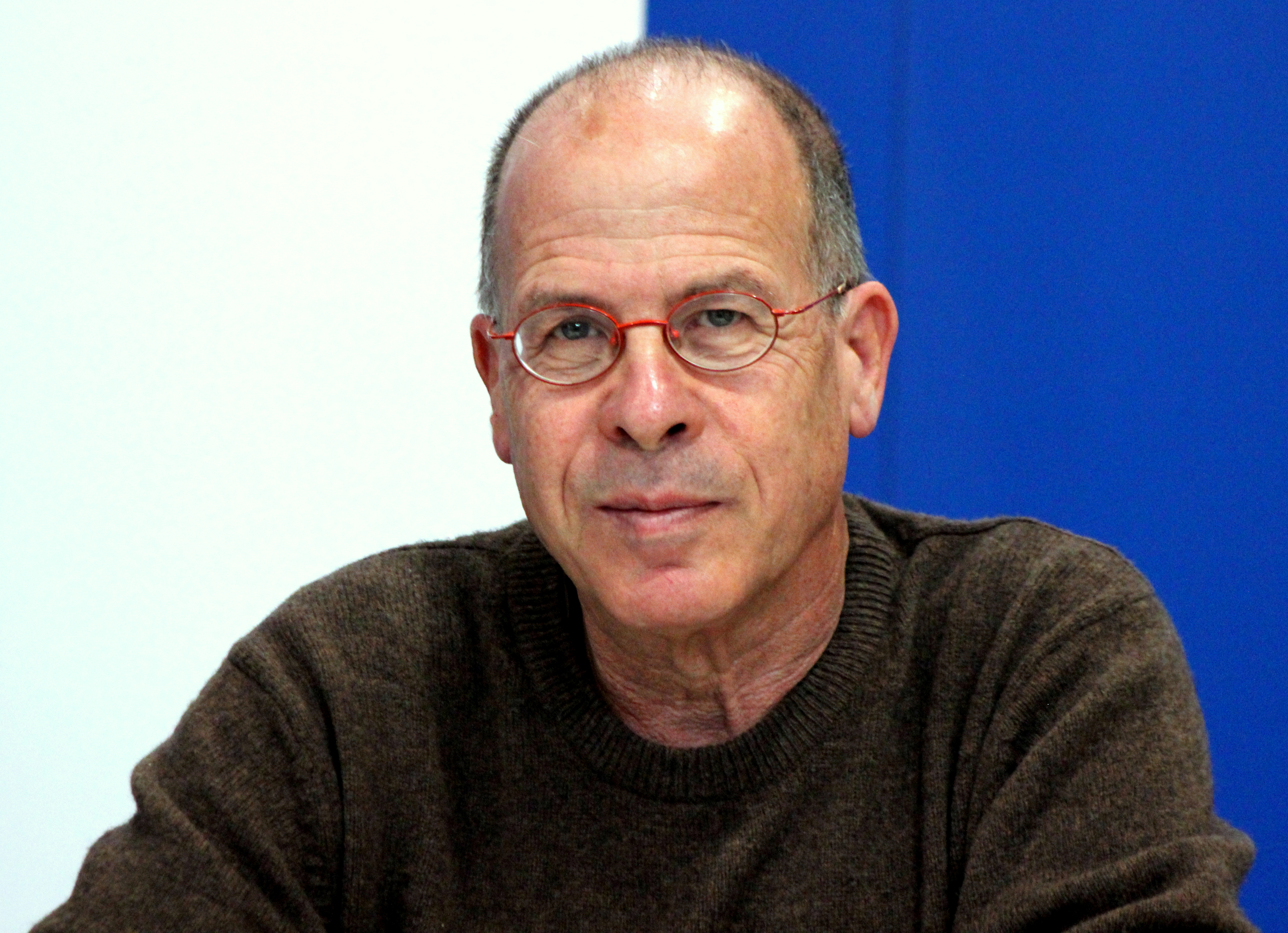 Meir Shalev, Leipzig Book Fair 2015